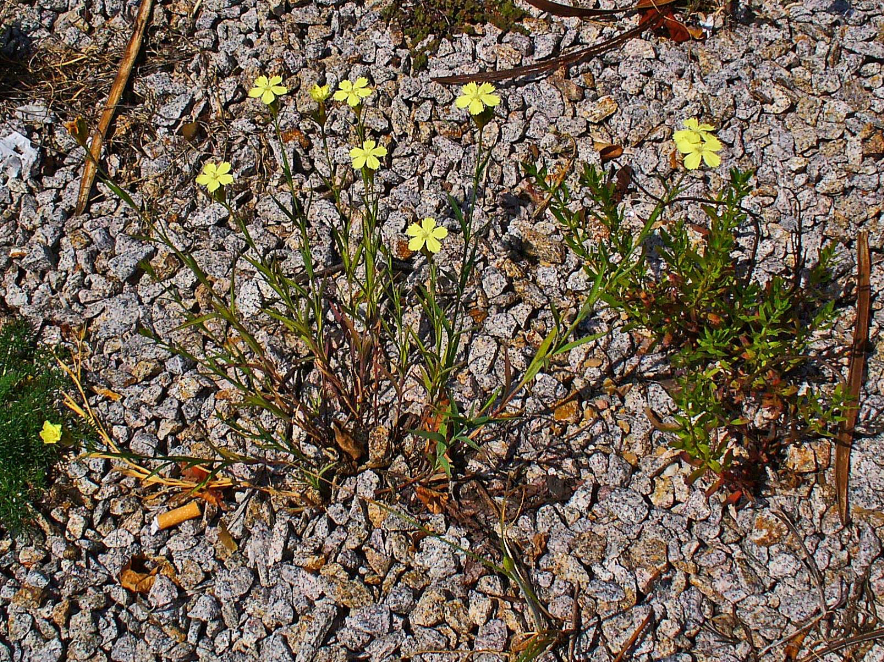 Dianthus knappii, Caryophyllaceae, Hairy Garden Pink, habitus; Karlsruhe, Germany.